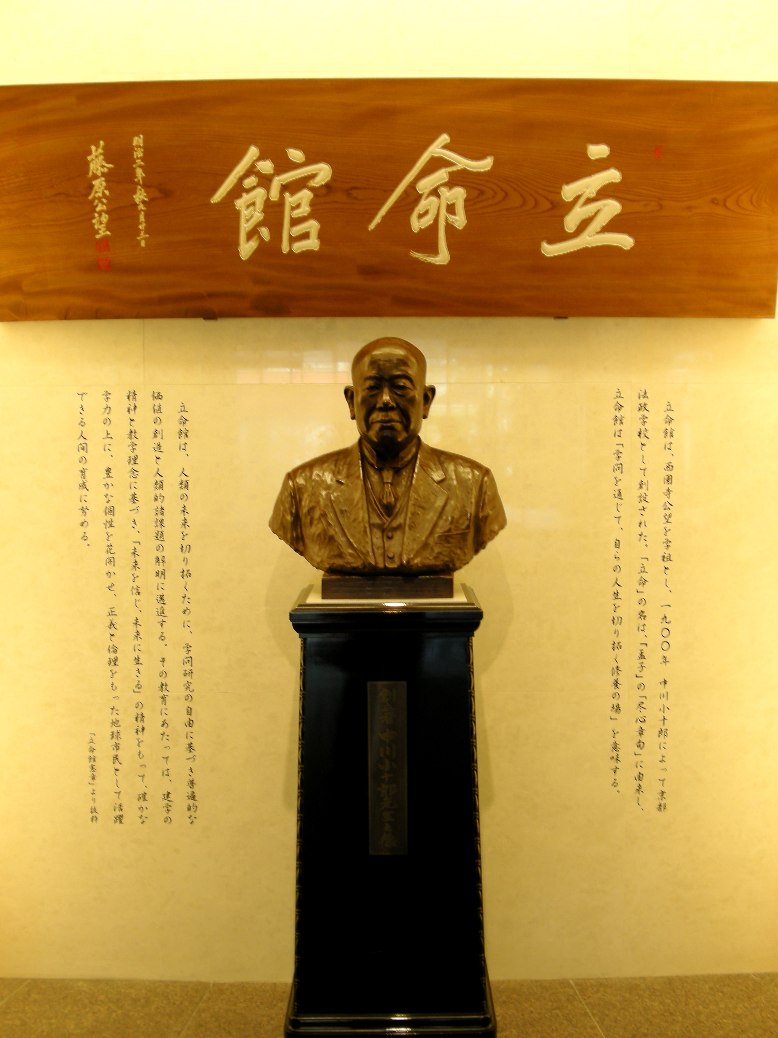 Picture of Wooden Plaque on which "RITSUMEIKAN (Name of School in Kyoto, Japan)" is carved and Bust of NAKAGAWA Kojuro, one of the founders of Ritsumeikan University.